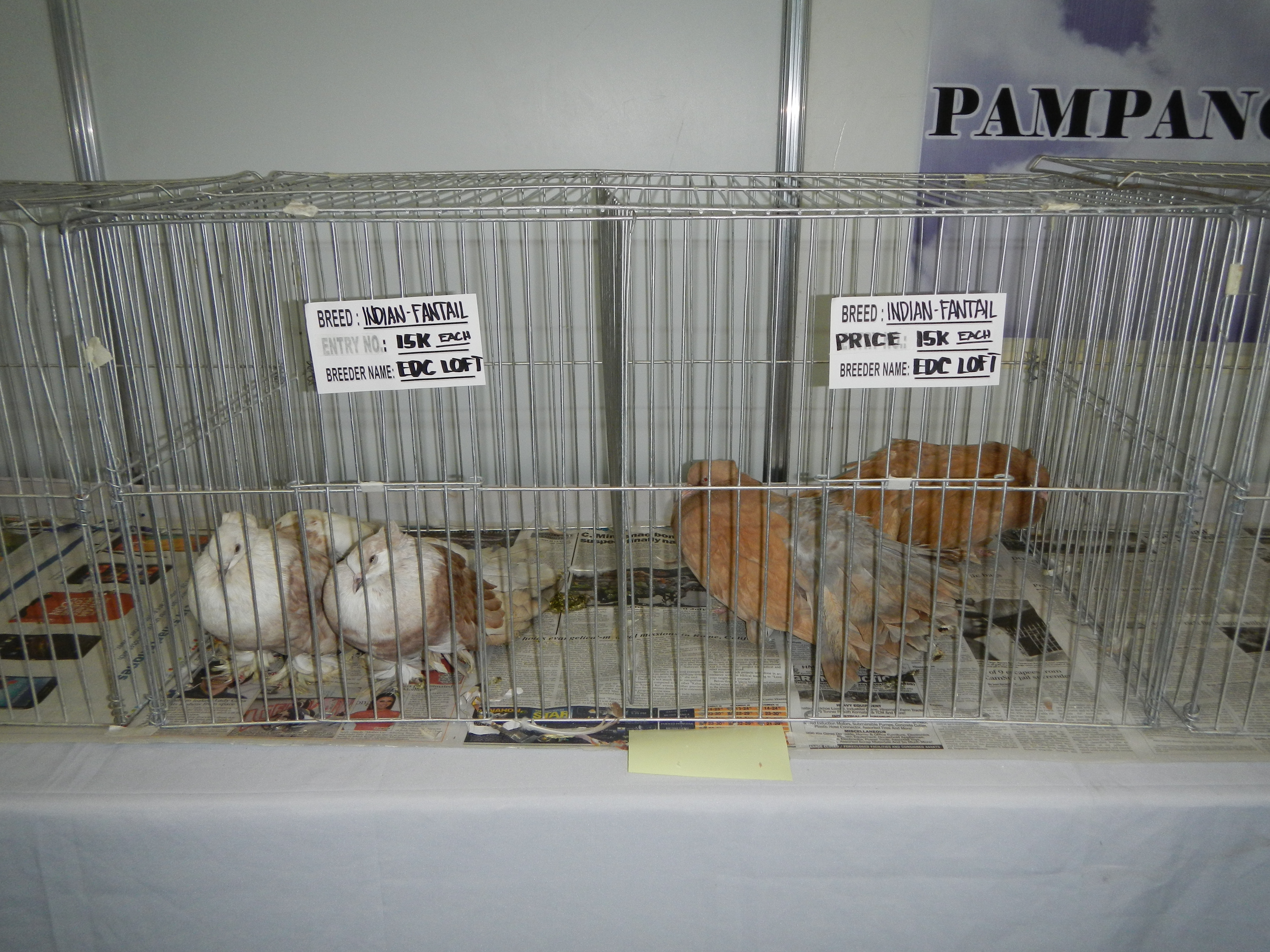 Upload Wizard photos of - the - World Pigeon Expo 2014 [1] [2] January 17-19, 2014Website Fancy and racing pigeons at - Gil Puyat Ave. Extension[3] cor. Diosdado Macapagal Boulevard[4] Pasay City[5] - the World Trade Center Metro Manila [6] [7] [8] (WTCMM) in the financial center of Pasay, Metro Manila, Philippines is a private corporation owned by the Manila Exposition Complex and the ICCP Group of Companies (with Guillermo D. Luchangco as Chairman and Chief Executive Officer). Established in January 1990, it is managed by the World Trade Center Management, Inc.